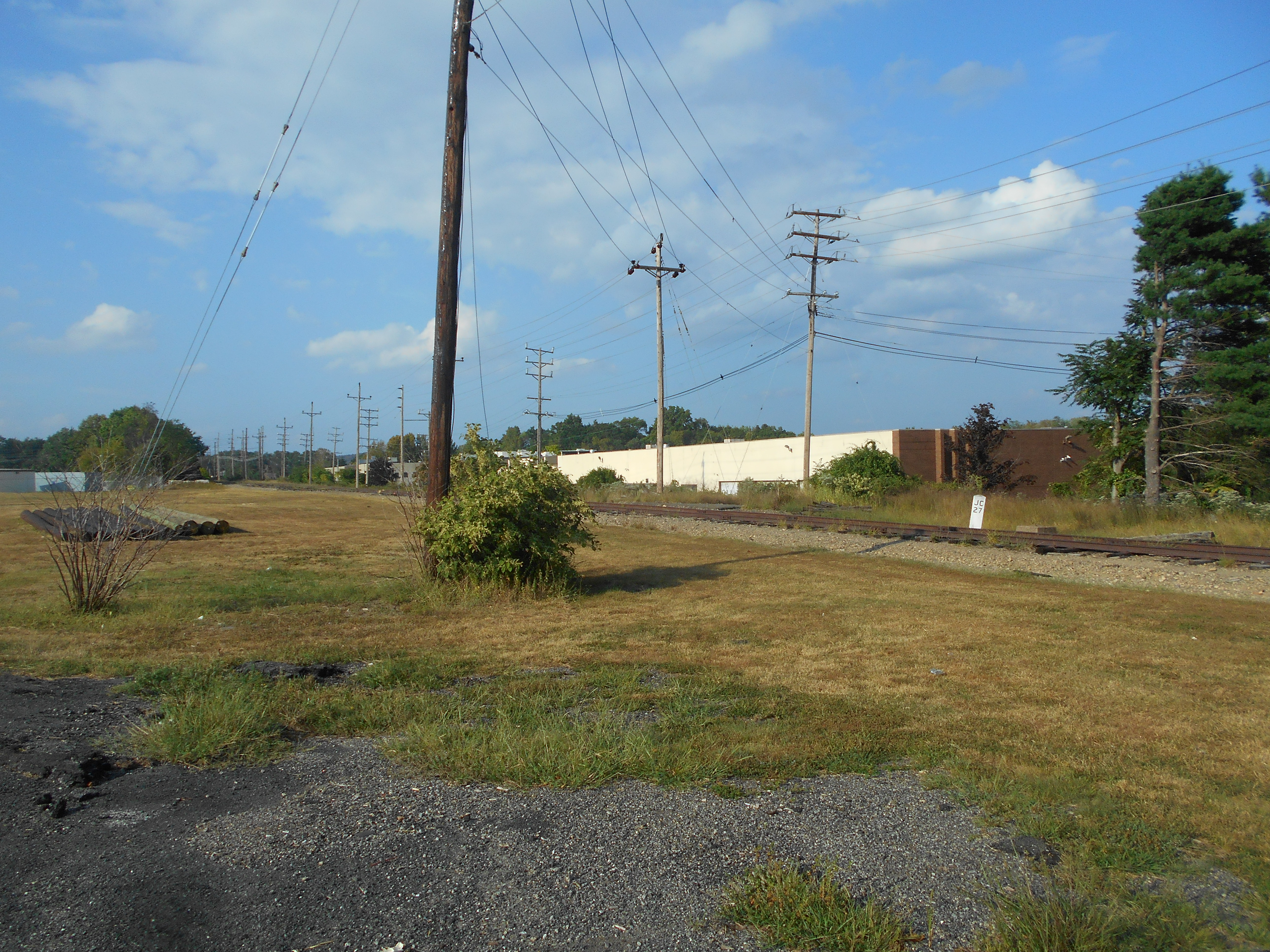 The site of the former Riverdale flag stop in Riverdale, New Jersey.